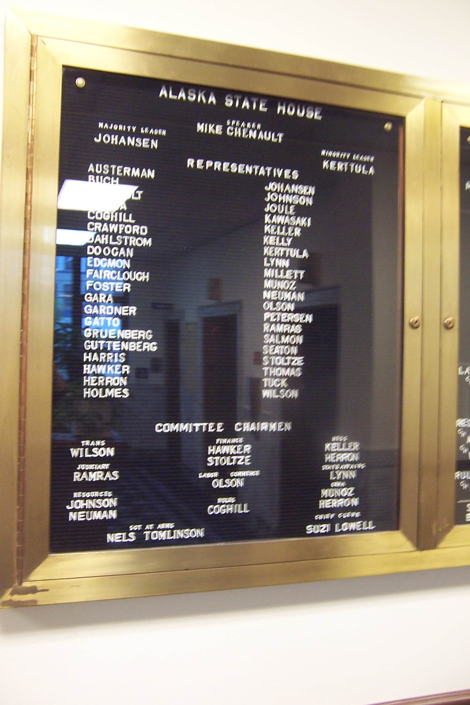 Directory of the Alaska House of Representatives members in the Alaska State Capitol